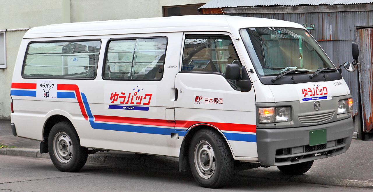 Mazda Bongo Brawny Van 2.5D 4WD, belongs to the Japan Post (1999/6 - 2005/10, KG-SK56M)